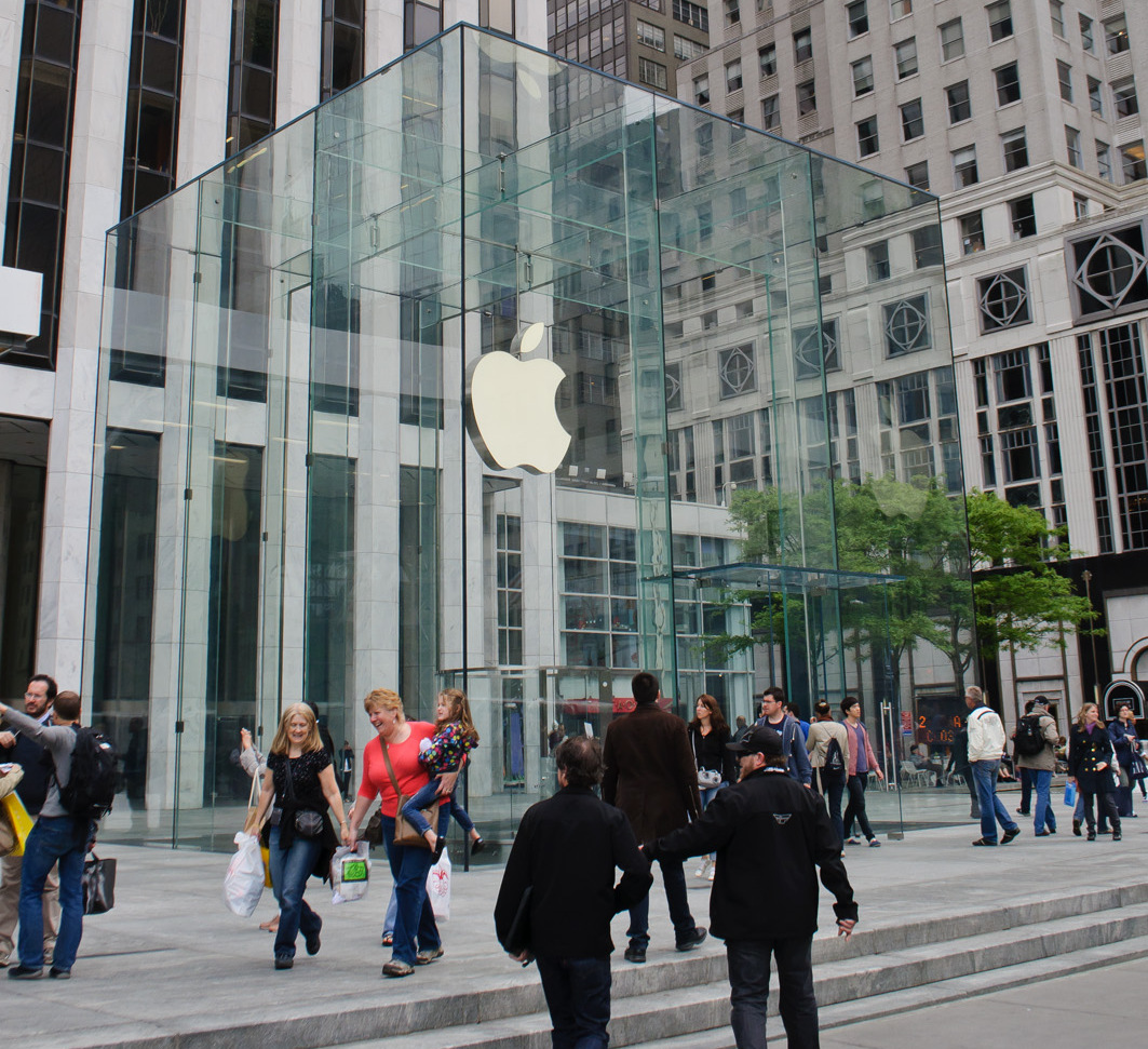 Apple store 5th avenue